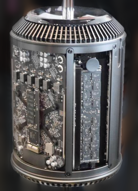 The 2013 Mac Pro (inside) with blurried background (the image isn't really looking good, but better than nothing)